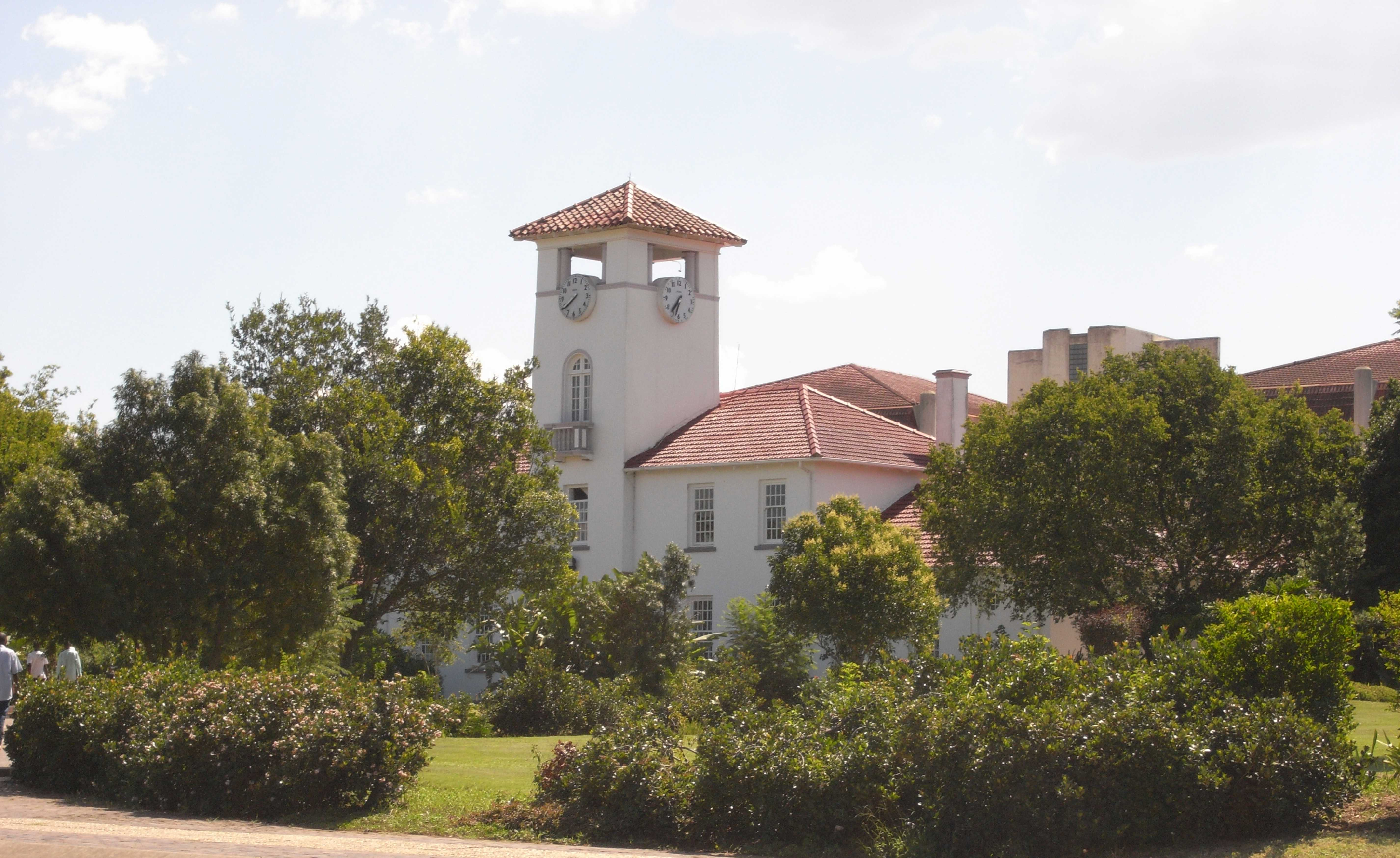 Fort Hare (old building) in Alice, Eastern Cape, South Africa